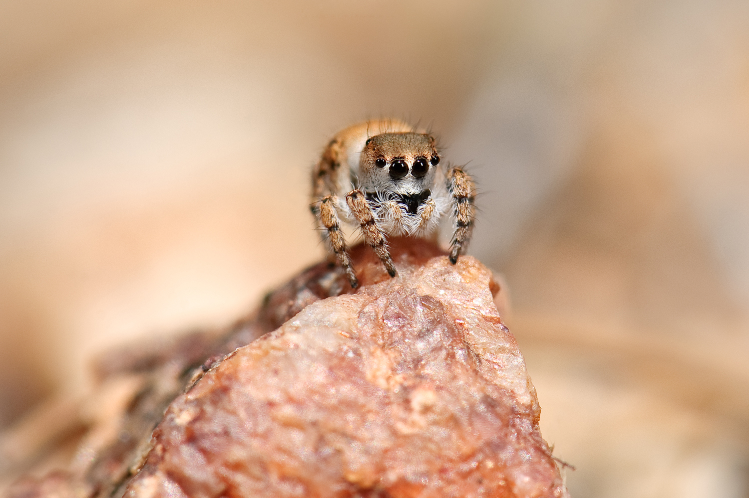 Habronattus ustulatus in habitat, open pebble barren in chamise + redshanks chaparral